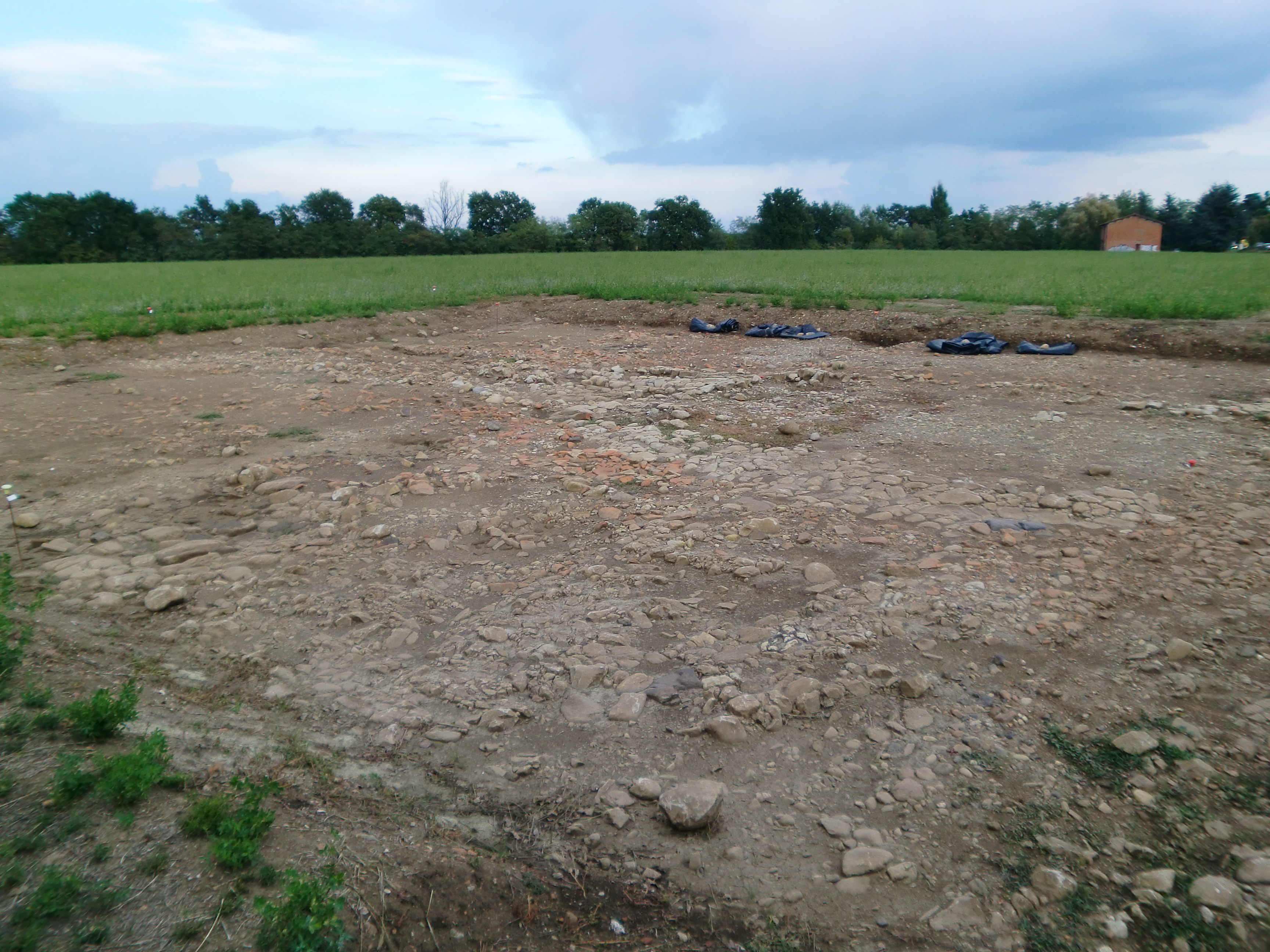 The excavations of the probable location of the forum of the Roman city of Claterna, near Ozzano dell'Emilia, at the crossroad between ancient via Aemilia and the Cardo Maximo.